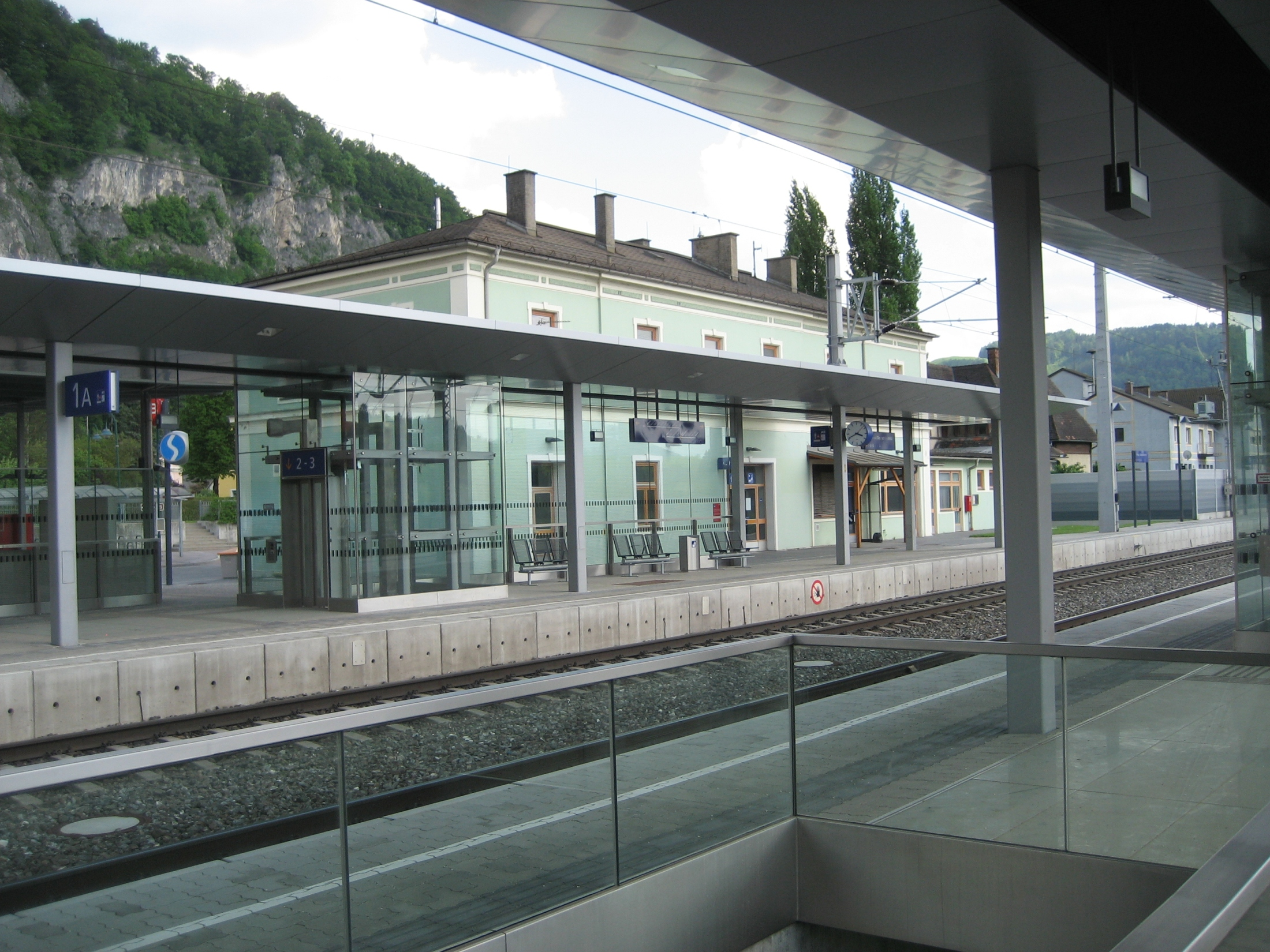 Train station Peggau-Deutschfeistritz in Styria